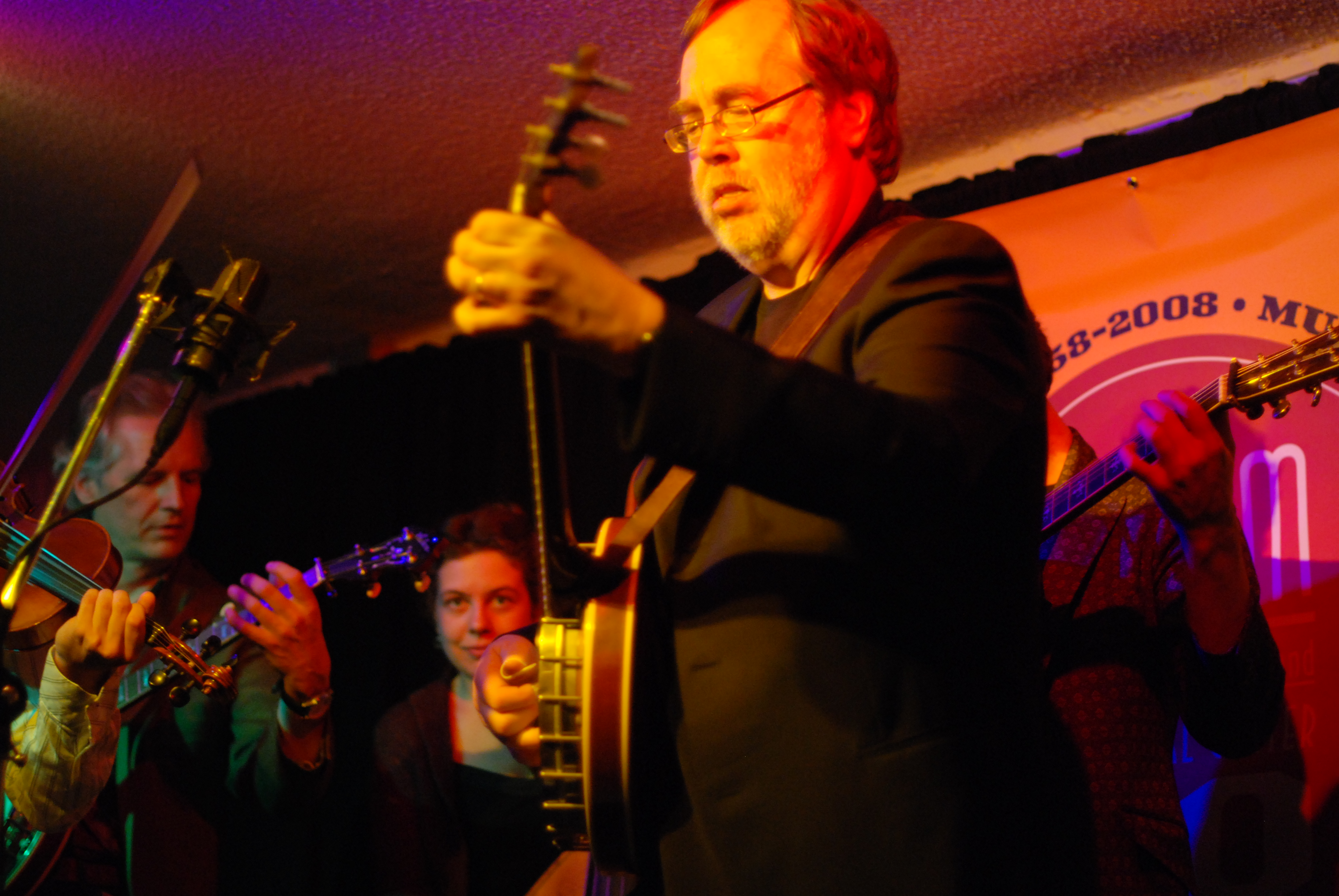 Tony Trischka Double Bluegrass Banjo Spectacular Tony Trischka, foreground background: • Mike Mumford • Amanda Kowalski